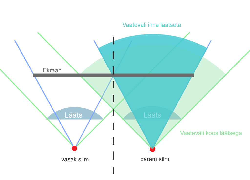 Oculus Rift: optical schematic showing how adding lenses increases the field of view.